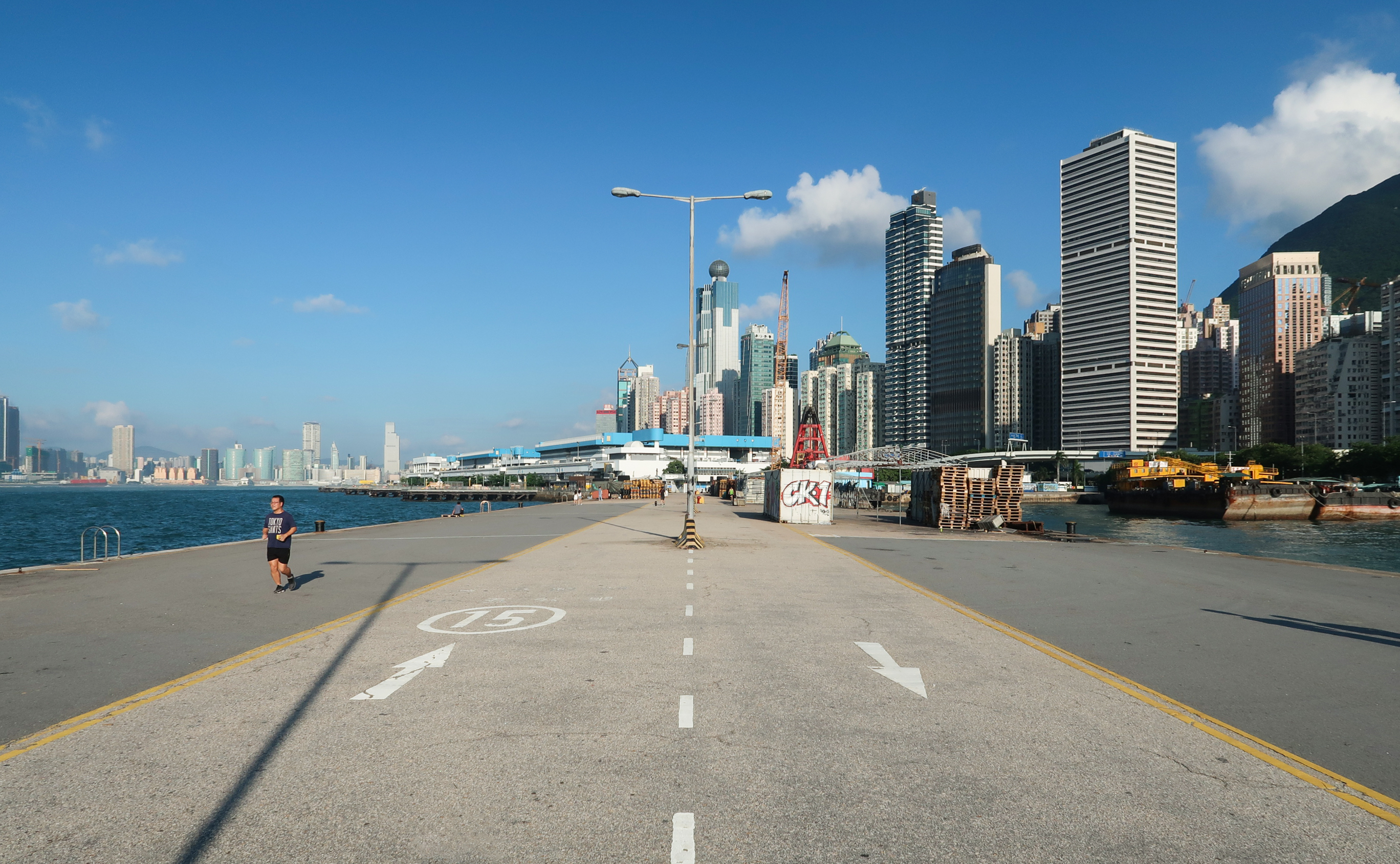 Western District Public Cargo Working Area